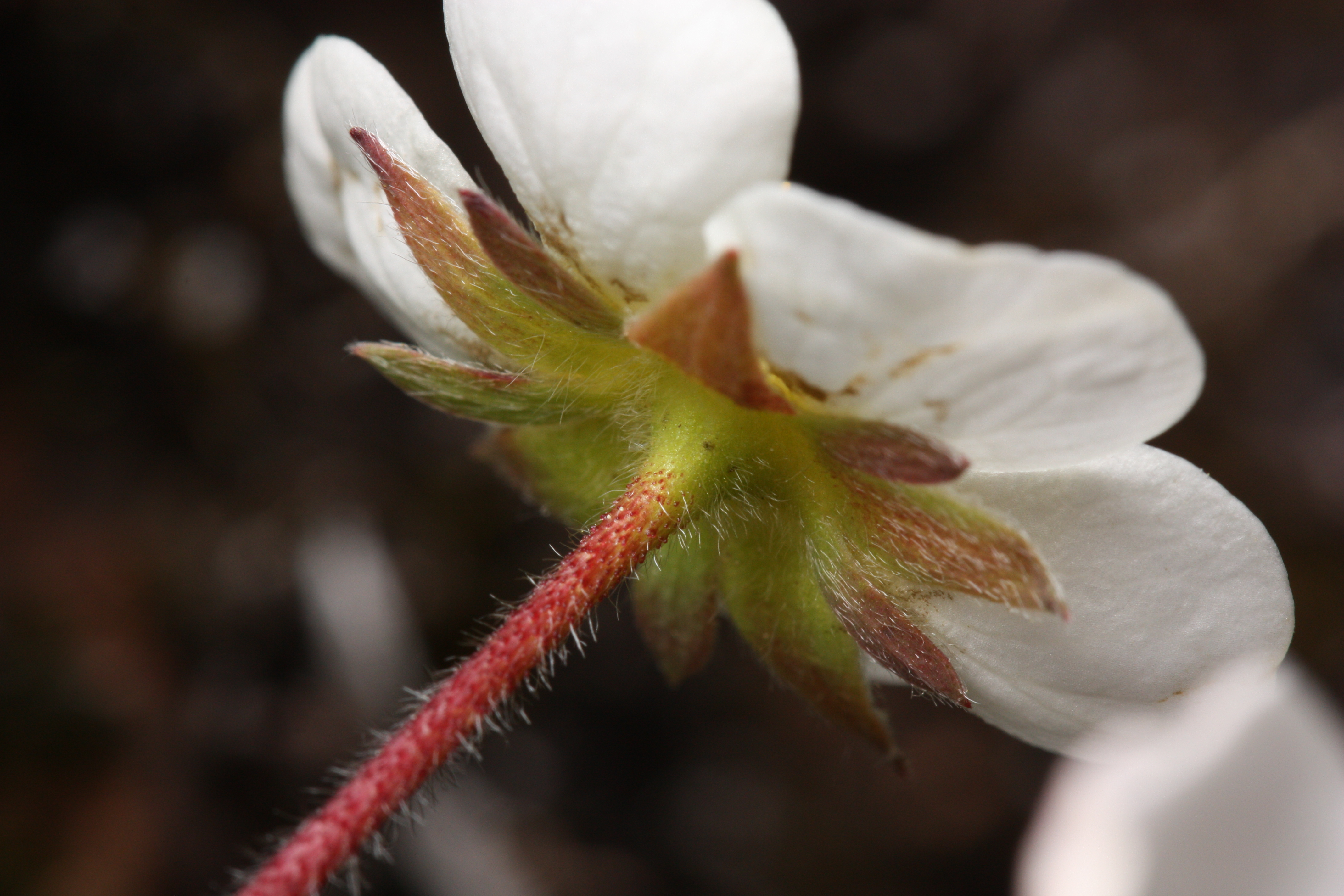 Virginia Strawberry, Blueleaf Strawberry Viewpoint location: Goose Rock Summit Trail, Deception Pass State Park Viewpoint elevation: 145 meter (476 ft) Location source: Google Earth Location Datum: WGS84